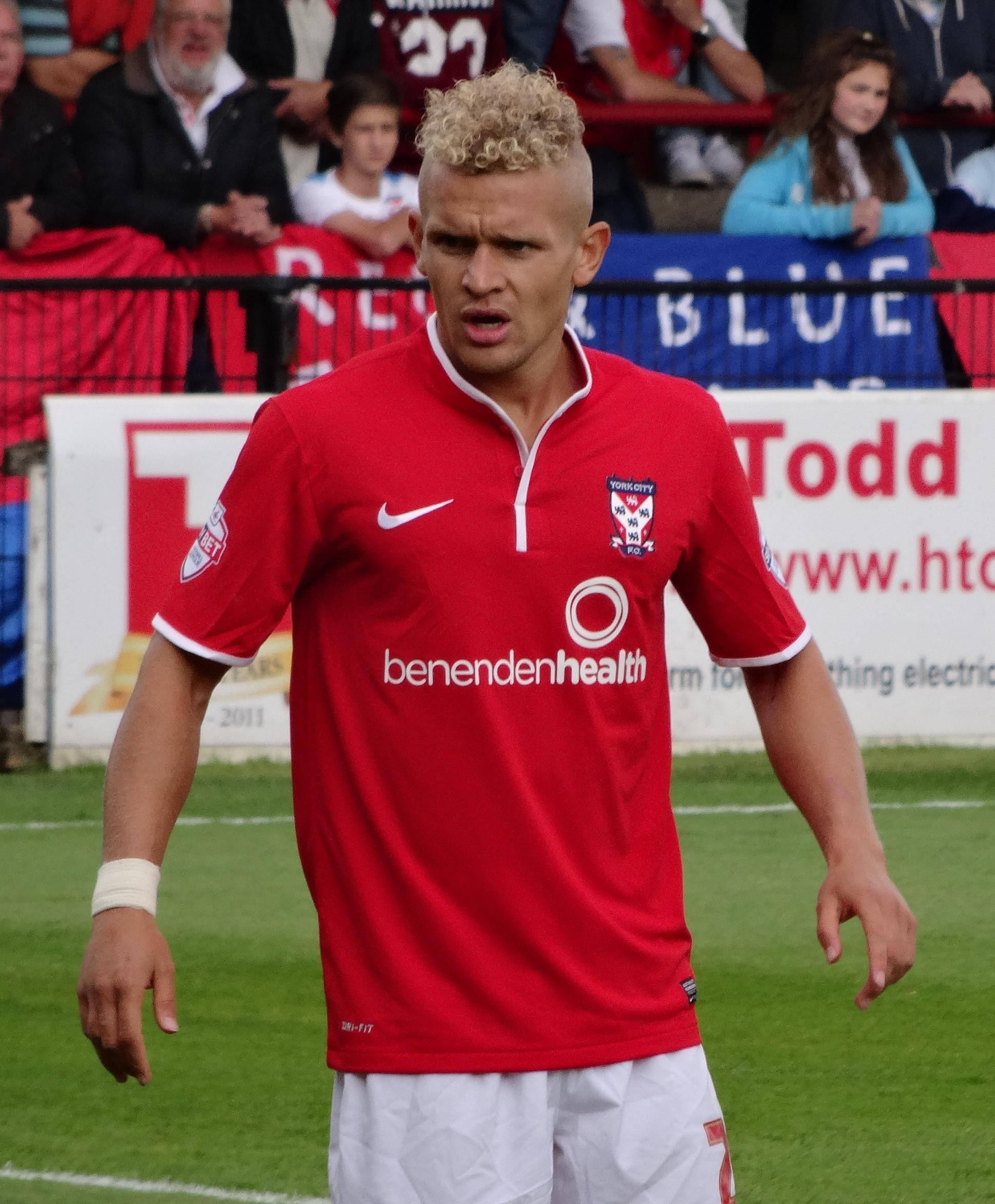 Lindon Meikle playing for York City against Northampton Town at Bootham Crescent, York on 16 August 2014